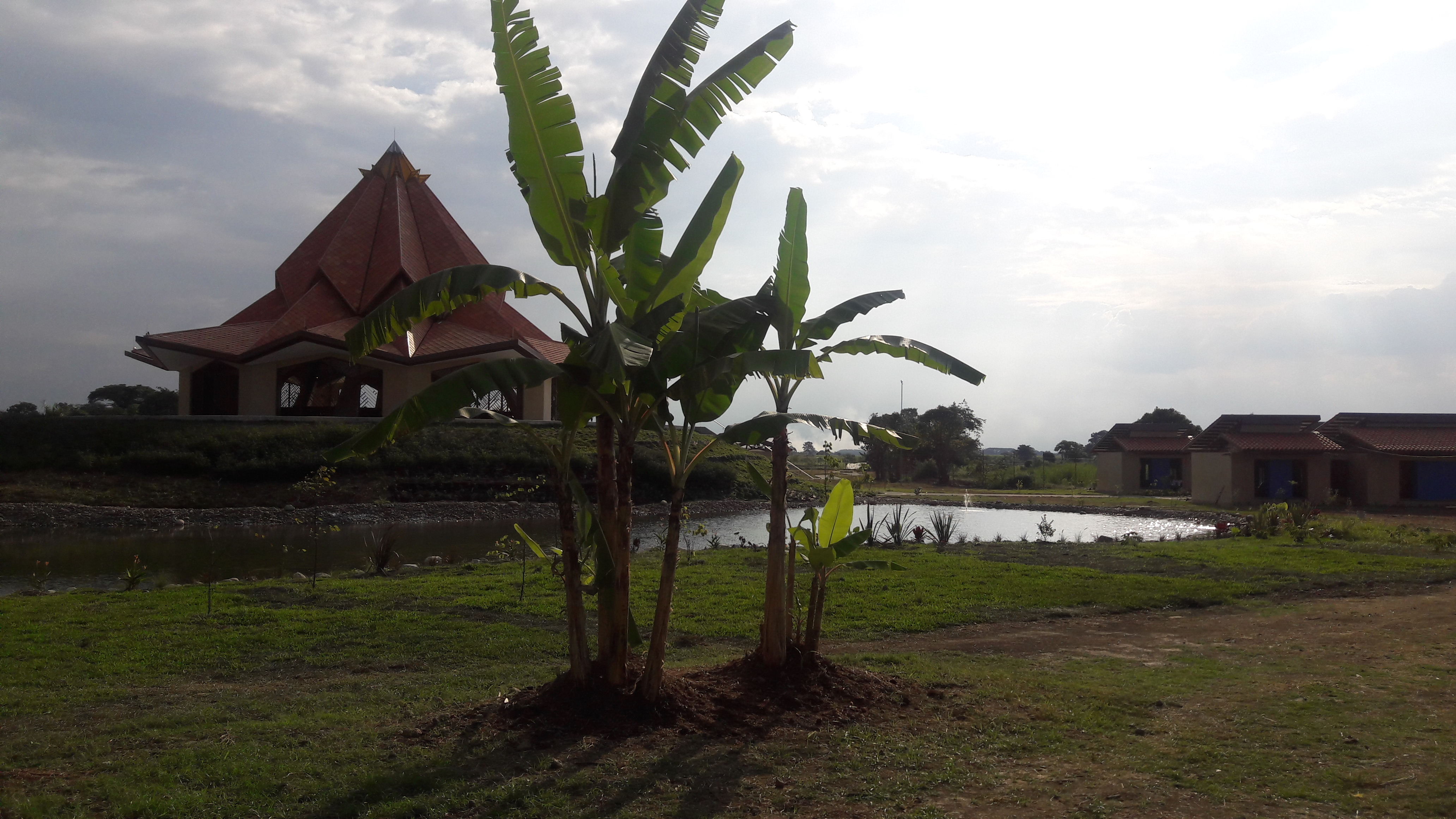 Afternoon shot with plantain tree and lake. Bahá'í House of Worship in Norte del Cauca, Colombia